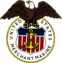 Seal of the United States Merchant Marine. Created in GIMP from public domain .